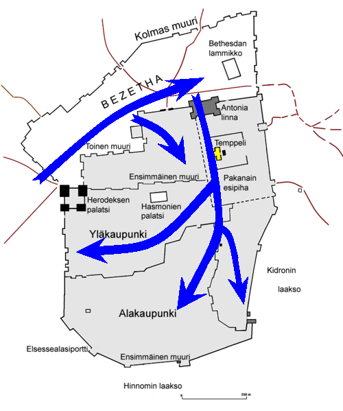 Map of the siege of Jerusalem with movements of Roman army